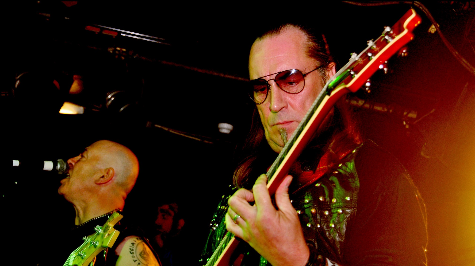 British band Venom Inc, performing live.